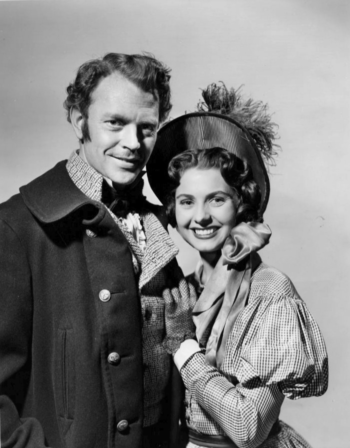 Photo of Dan O'Herlihy and Peggy Creel from "Log the Man Innocent", presented by Schlitz Playhouse of Stars. This was an anthology-type of television series.